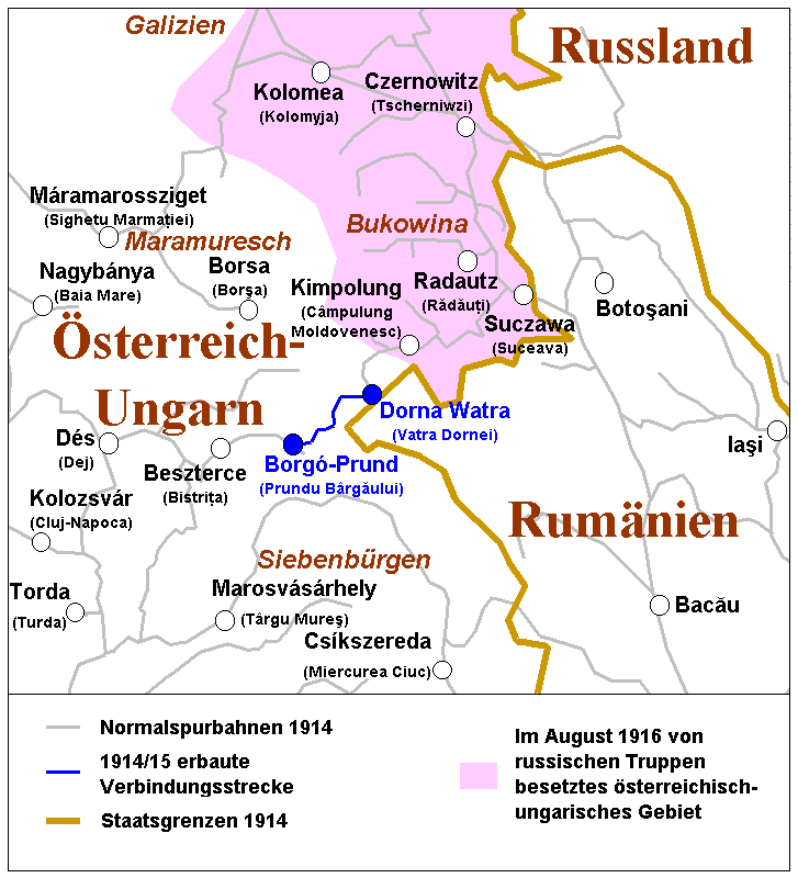 Map of the Railway Prundu Bargaului-Vatra_Dornei